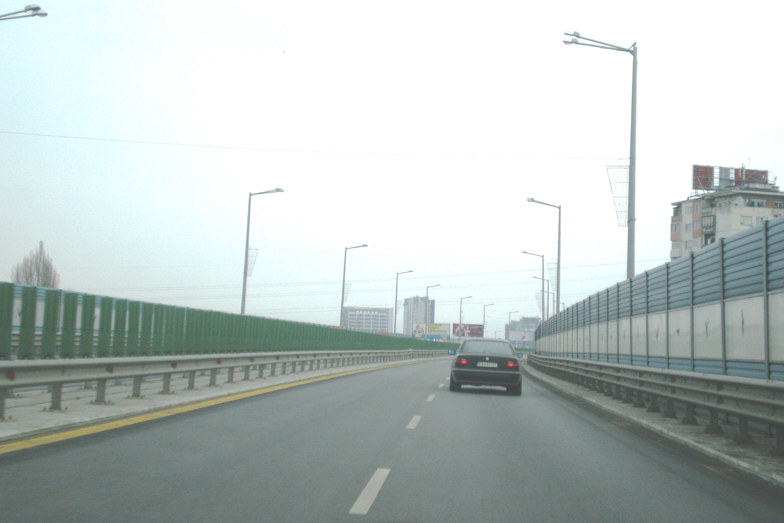 Brussels boulevard - Sofia, Bulgaria